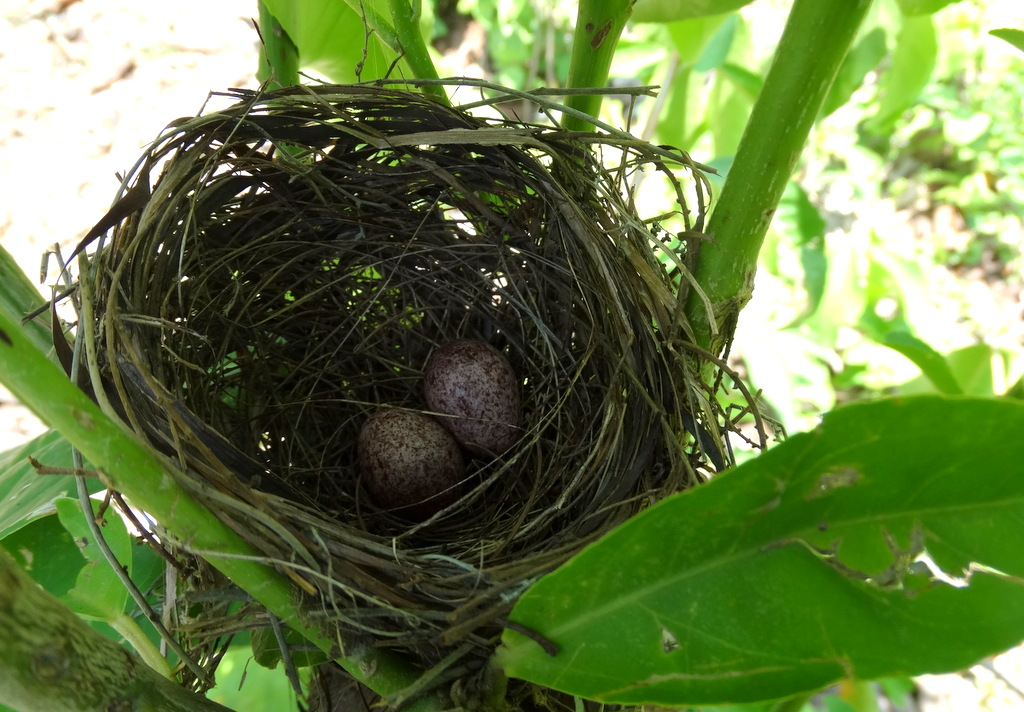 This picture is taken in Purulia, West Bengal, India